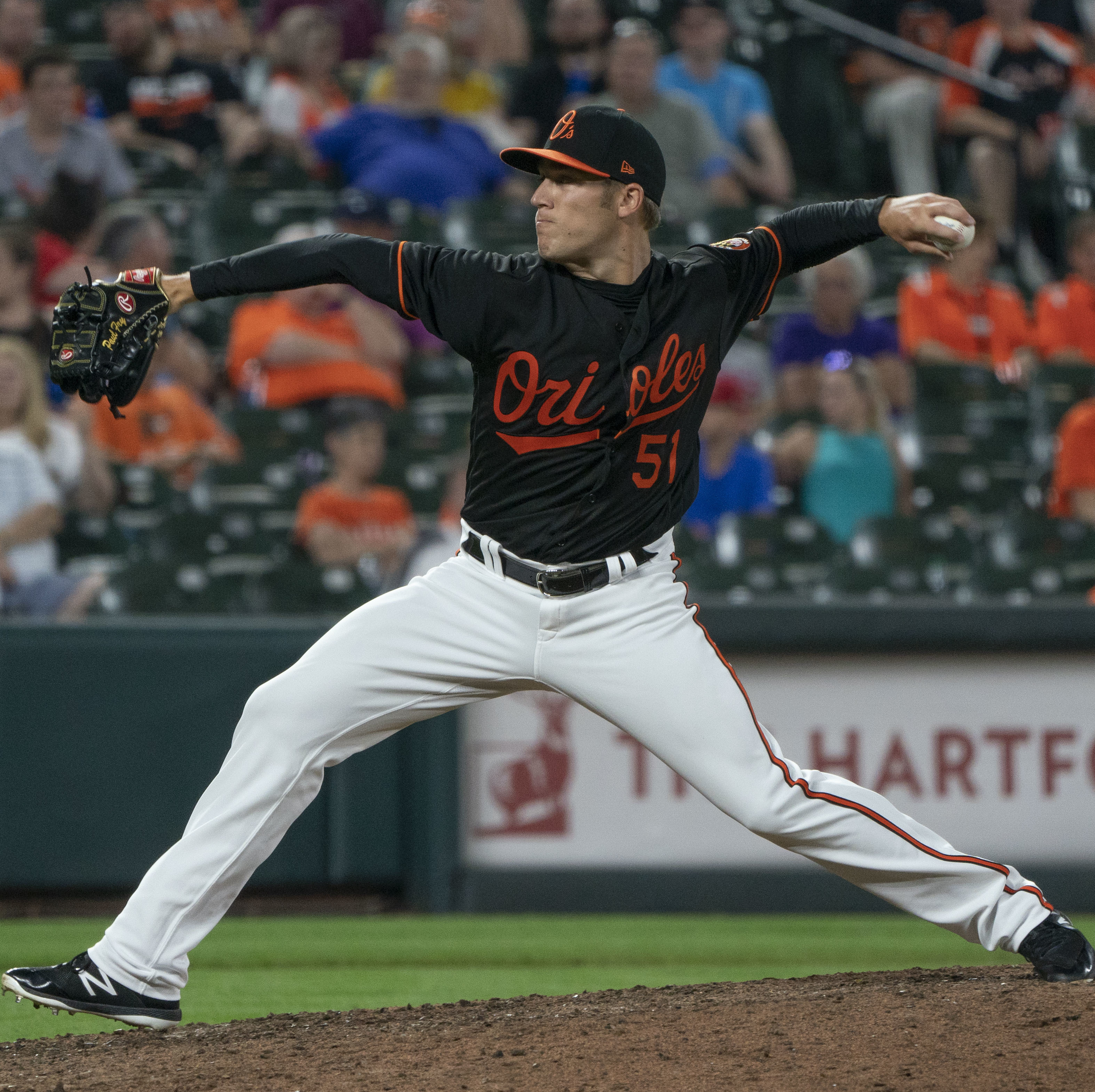 Paul Fry of the Baltimore Orioles pitches against the Los Angeles Angels of Anaheim during his MLB debut at Oriole Park at Camden Yards on June 29, 2018 in Baltimore, Maryland.